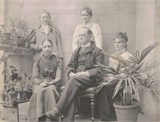 Photograph of Alexander Ross Clarke with daughters